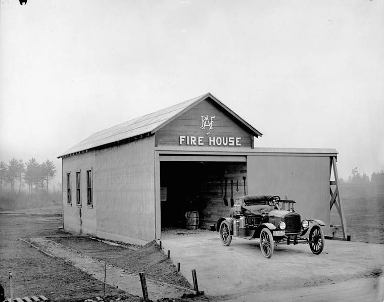 Royal Canadian Air Force fire house, Camp Borden, Ontario. Photograph taken circa 1914-1919.